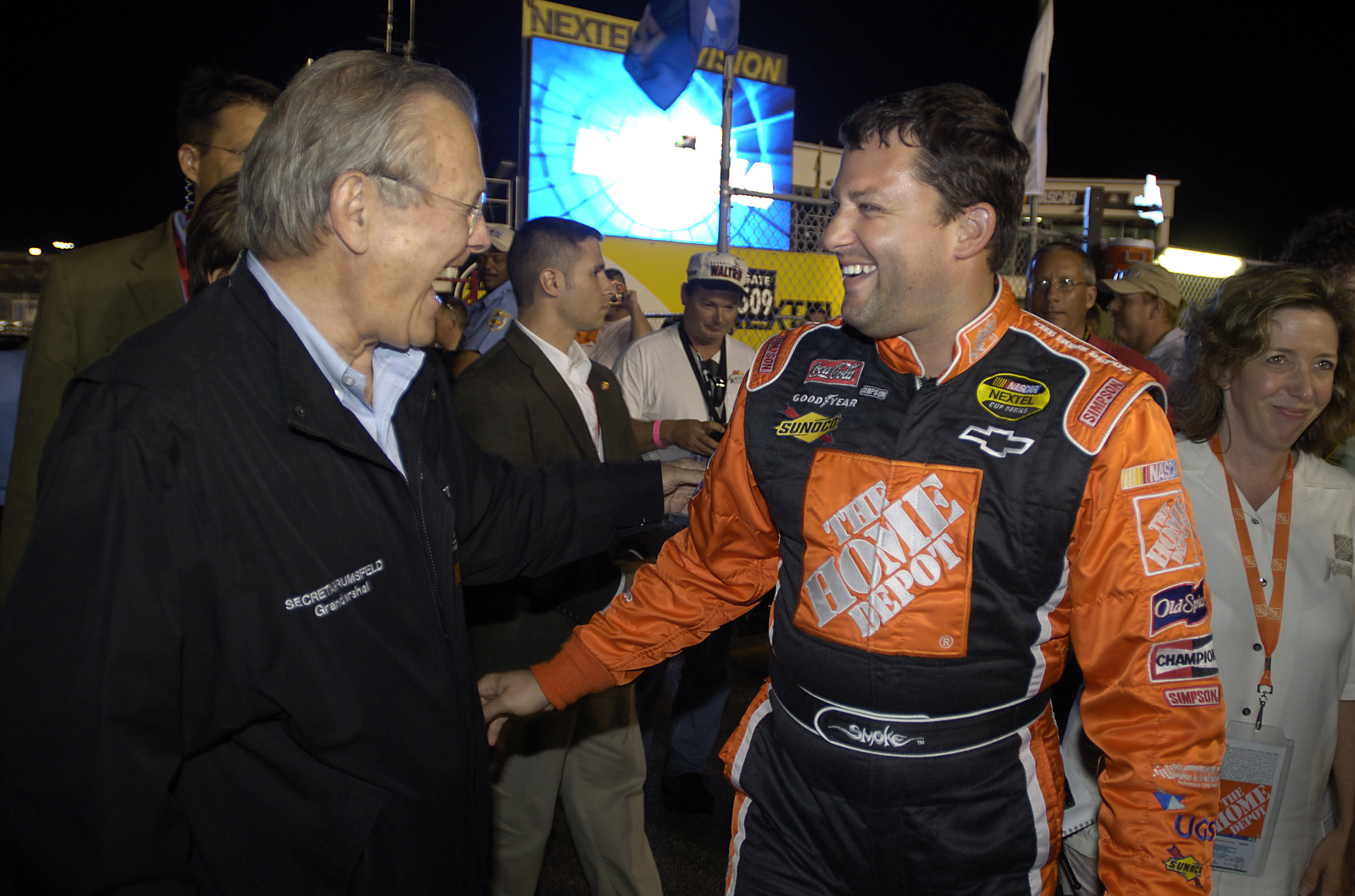 Secretary of Defense Donald H. Rumsfeld shares a laugh with Tony Stewart, driver of the number 20 Home Depot Chevrolet, before the start of the Pepsi 400 at the Daytona International Speedway, Fla., July 2, 2005. Rumsfeld served as the as the Grand Marshal of the 47th running of the Pepsi 400 and met with NASCAR fans, drivers and their pit crews as he toured the infield before the race. Stewart earned the pole position for the race.